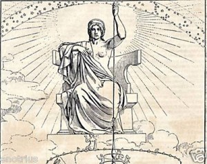 Ananke the personification of Necessity. (Nella Repubblica, Libro X, Platone, IV-V century b.C.)